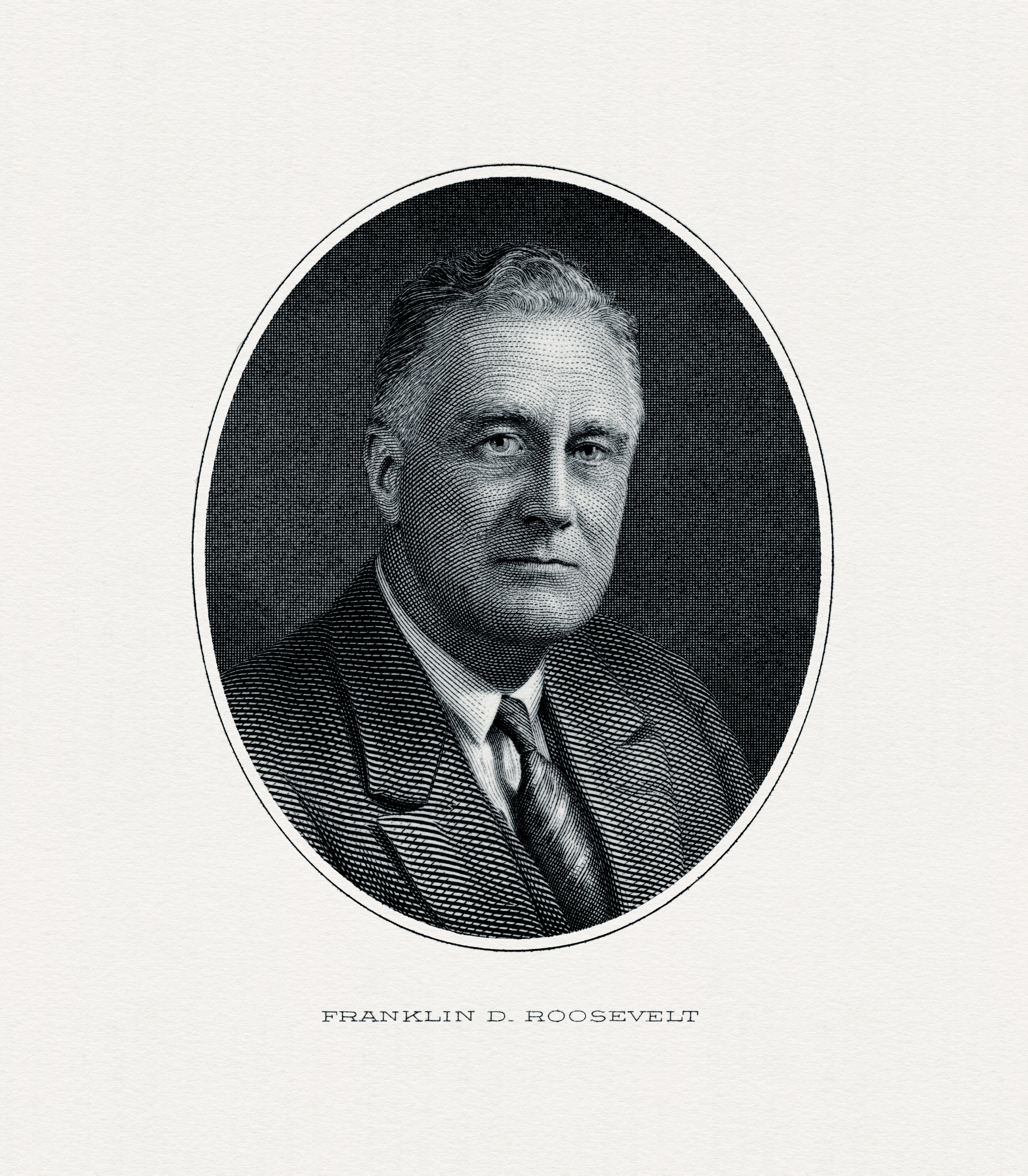 Engraved BEP portrait of U.S. President Franklin D. Roosevelt